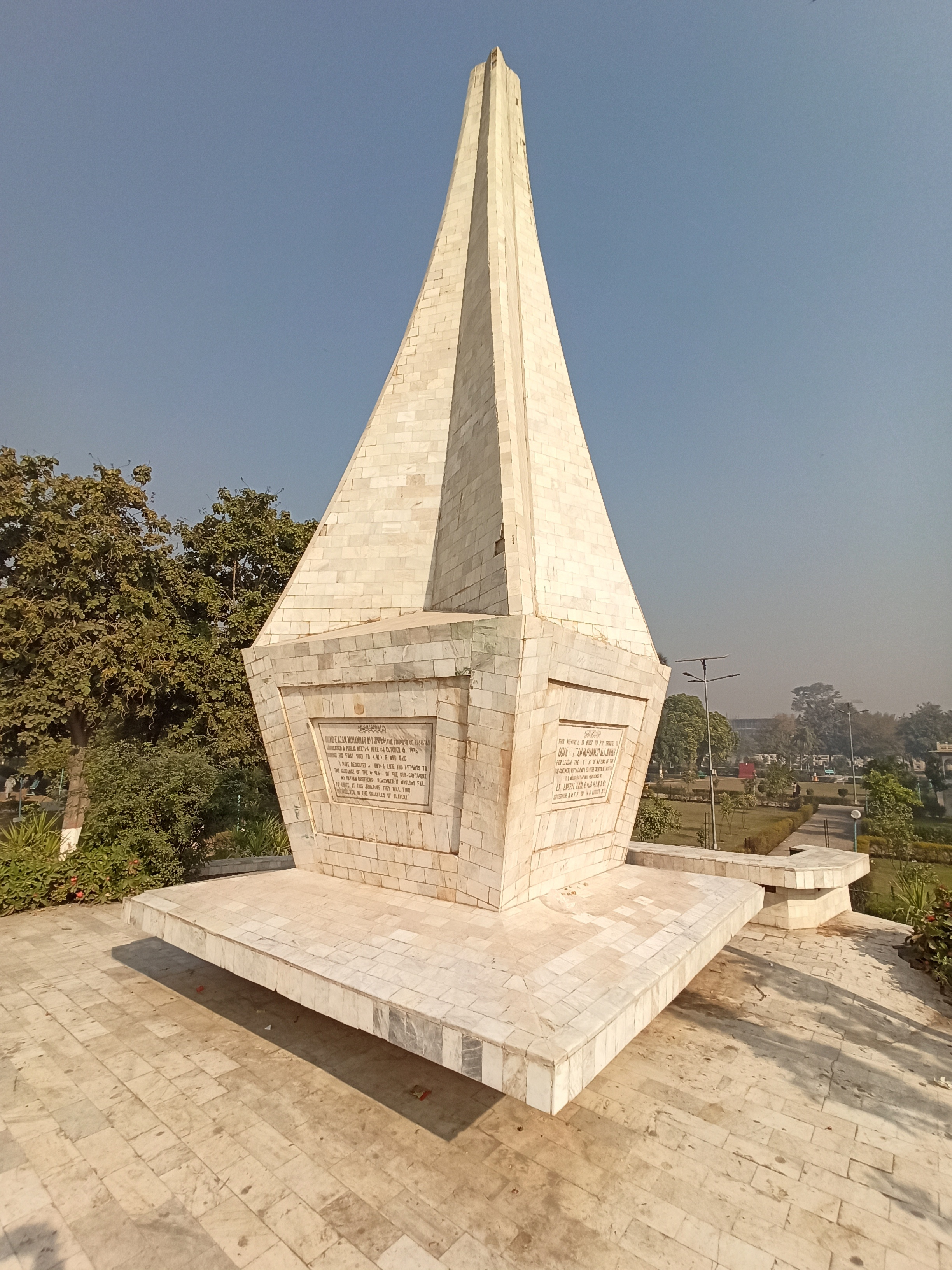 Qaid-e-Azam Monument Shahi Bagh Peshawar